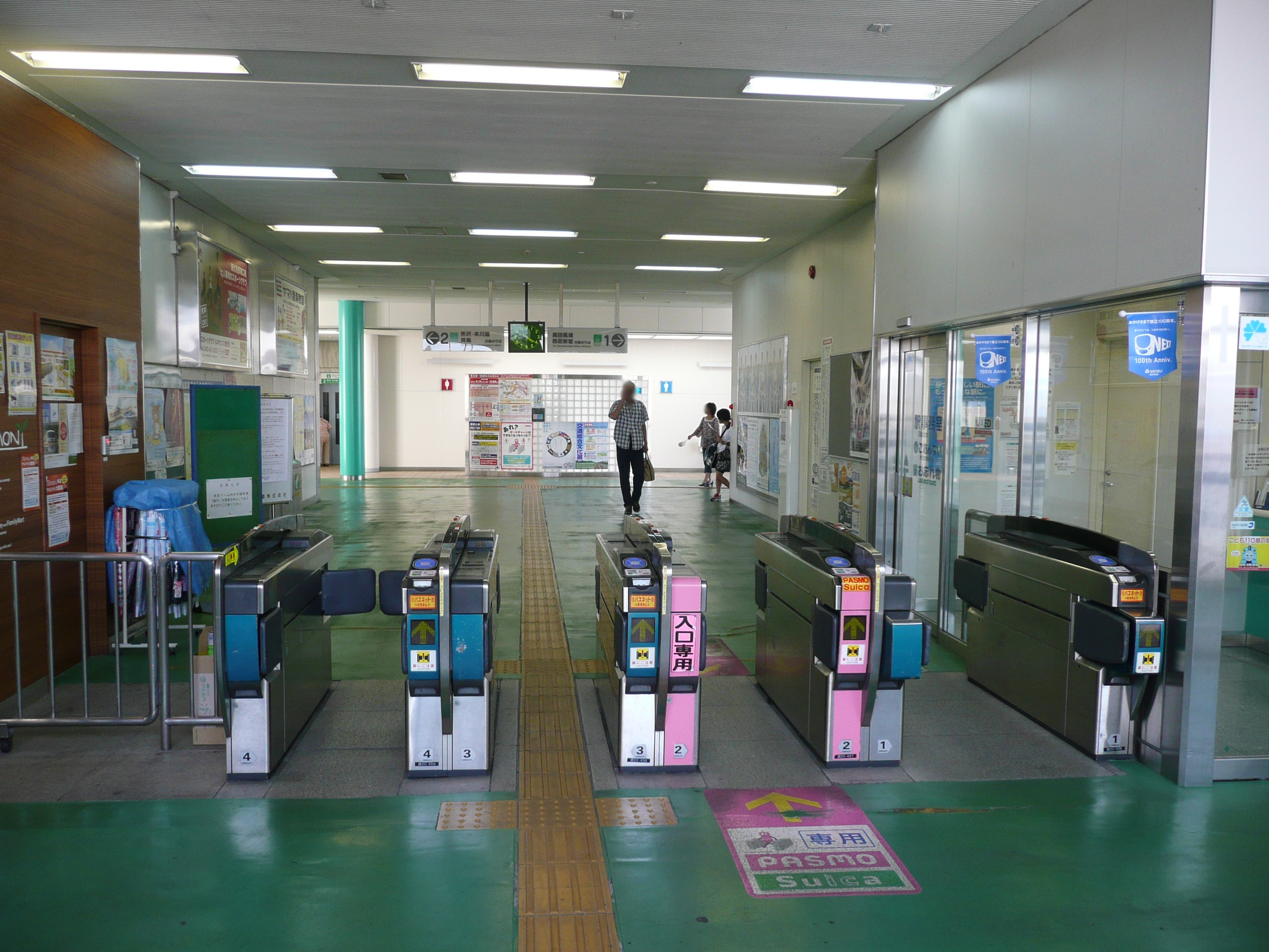 Ticket gate of Seibu-Yagisawa Station